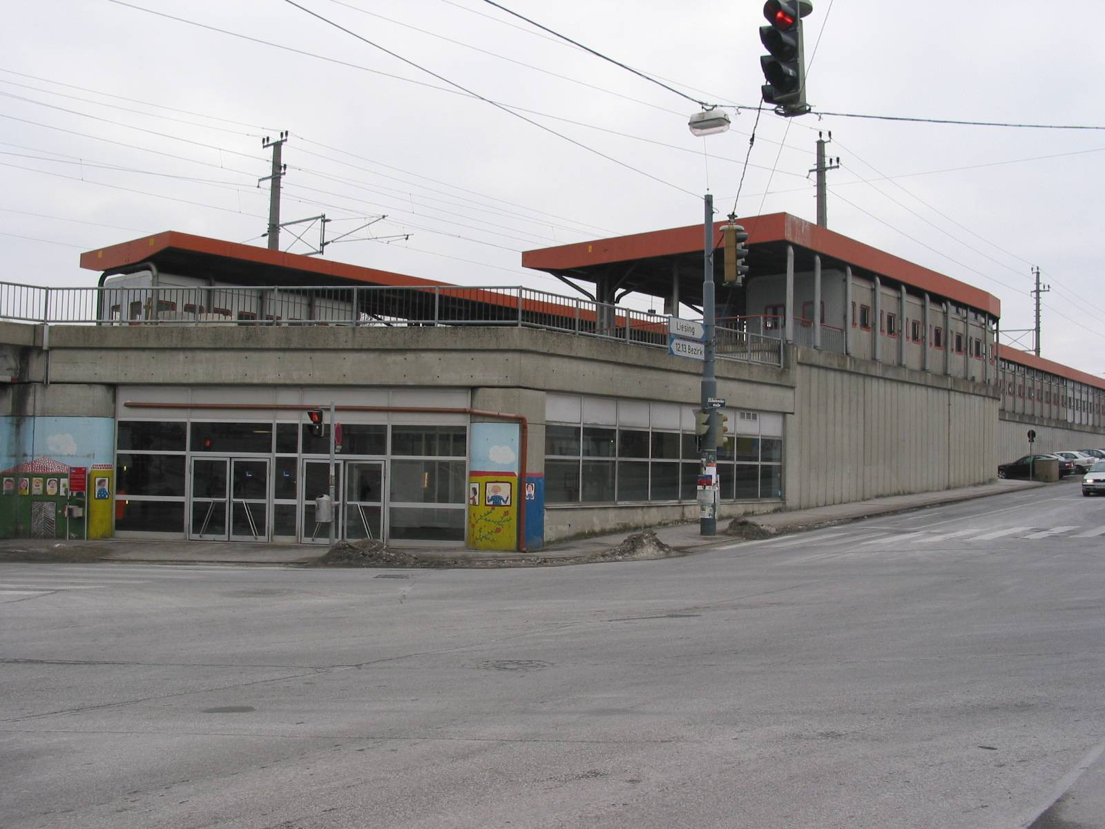 Station Atzgersdorf-Mauer